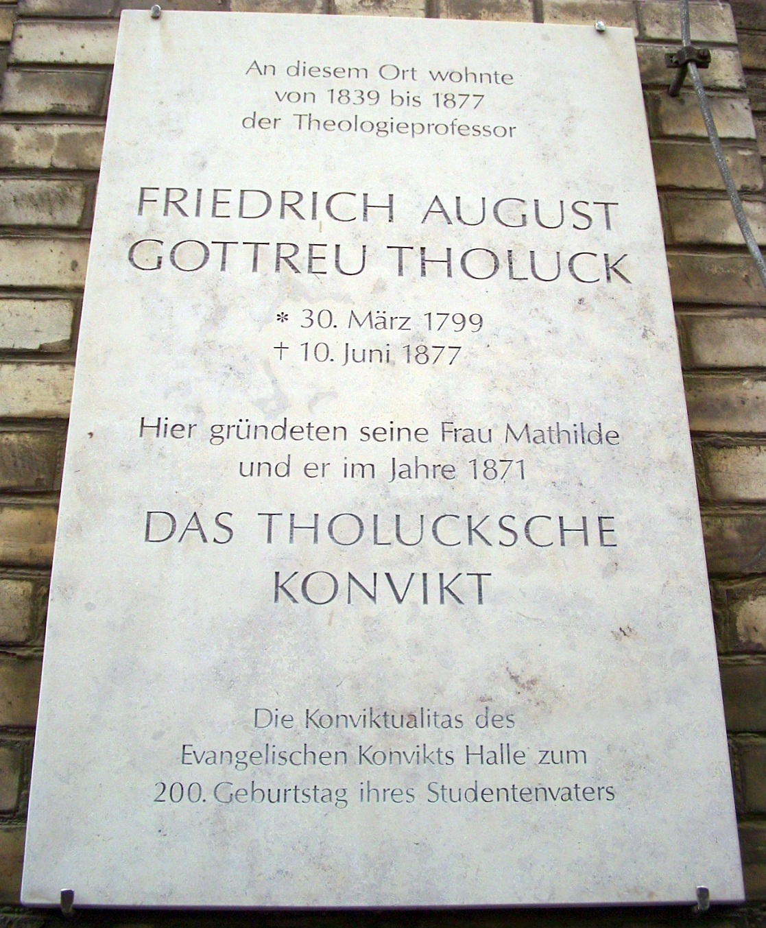 Plaque remembering Friedrich August Gottreu Tholuck at the first location of the former Tholuckkonvikt (Mittelstraße 11, 06108 Halle).